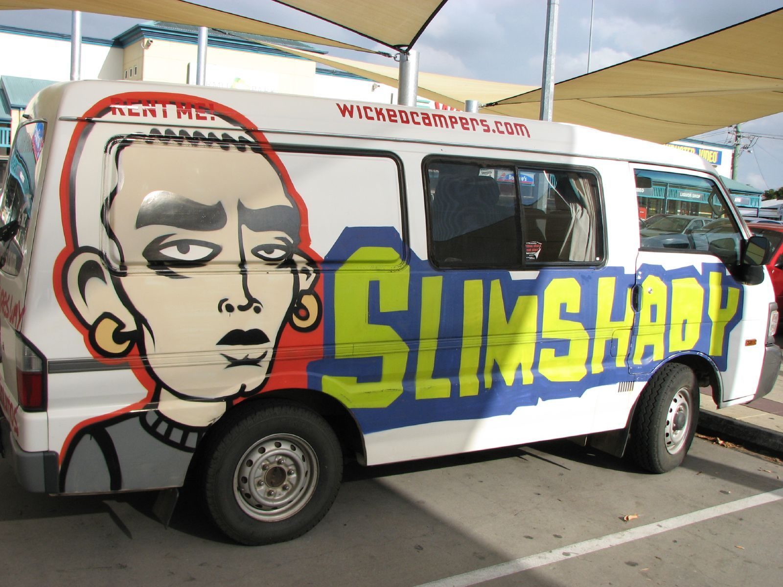 A van dedicated to Eminem (Slim Shady)